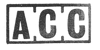 logo used by ACC (1973)